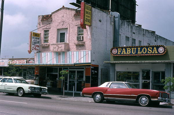 Local call number: fs80126 Title: Downtown buildings in Little Havana - Miami Date: ca. 1978 Physical descrip: 1 slide - col. Series Title: Folklife Collection Repository: State Library and Archives of Florida, 500 S. Bronough St., Tallahassee, FL 32399-0250 USA. Contact: 850.245.6700. Persistent URL